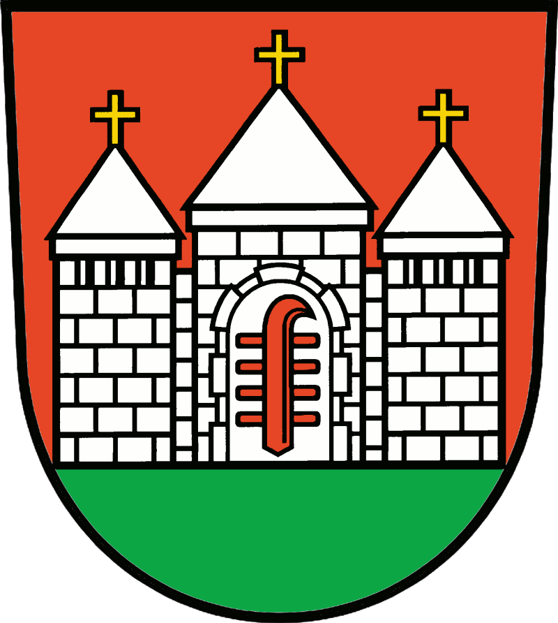 Coat of arms of Brüssow, Part of Brüssow